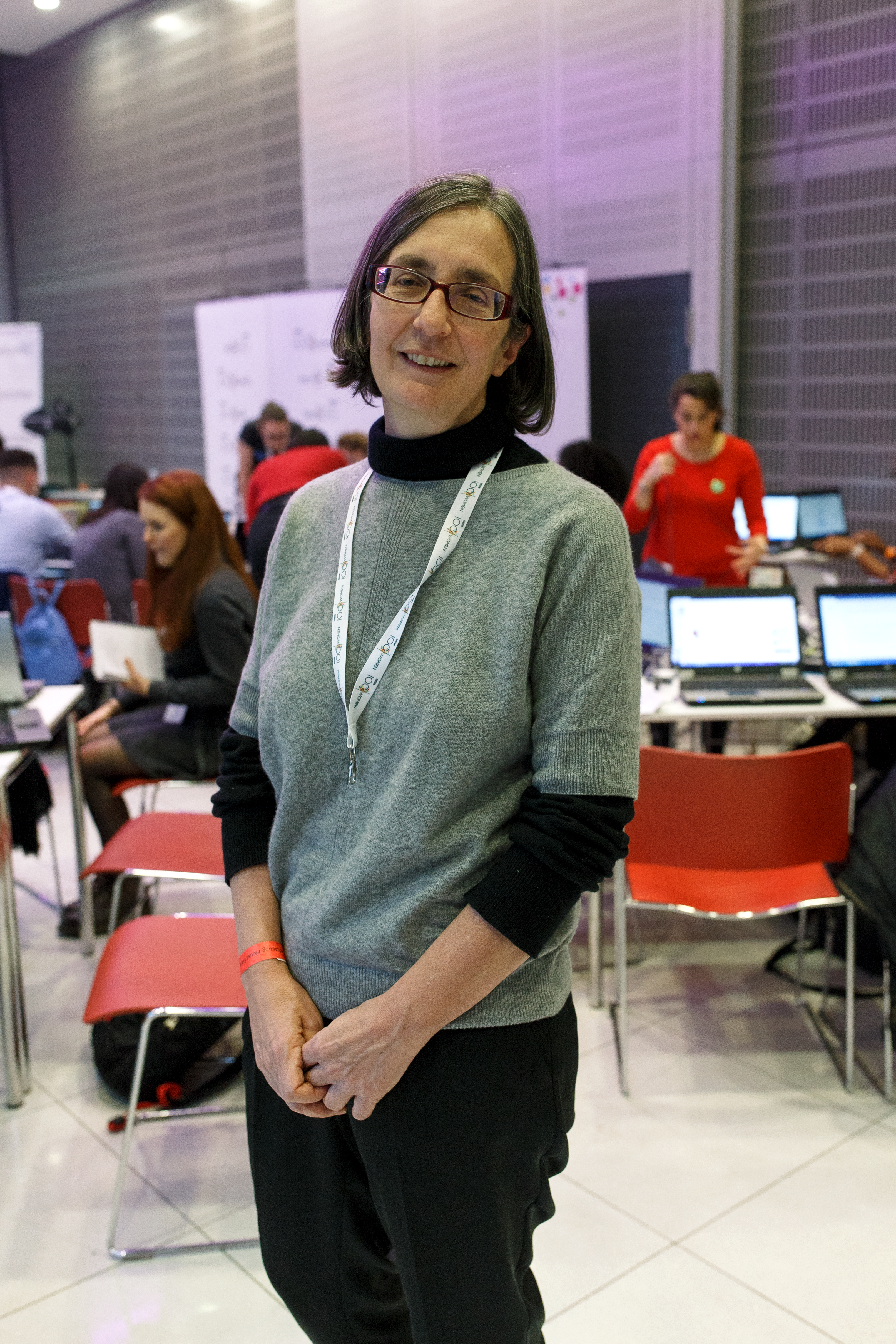 Helen Pankhurst, activist, writer and great-grand daughter of Emmeline Pankhurst, at BBC Broadcasting House in London, United Kingdom for the BBC 100 Women Wikipedia editathon on 8 December, 2016.